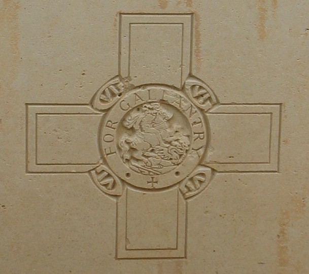 Image of George Cross Medal as appears on CWGC gravestones. Medal design was UK Crown copyright prior to 1952 and now in the public domain.